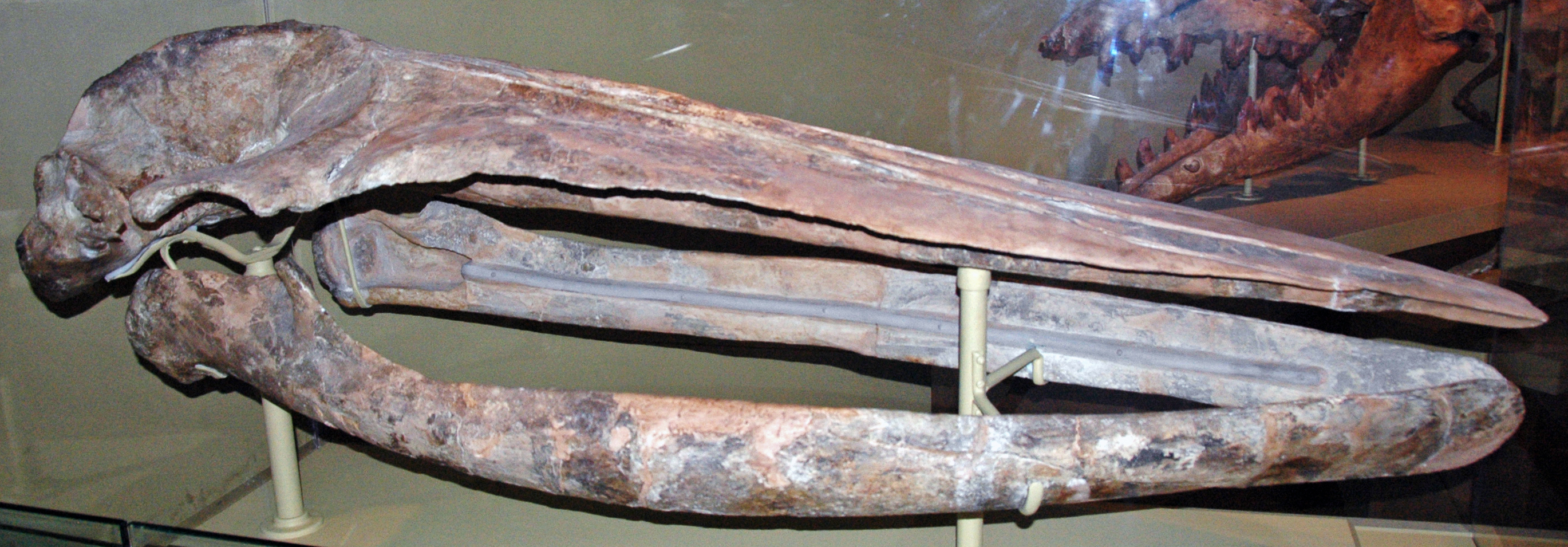 Aglaocetus moreni (Lydekker, 1894) - fossil baleen whale skull attributed to the Oligocene of Argentina. (FMNH P12955, Field Museum of Natural History, Chicago, Illinois, USA) This species is also known as Cetotherium moreni and Cetotheriopsis moreni. From museum signage: "First there were meat eaters, then came plankton feeders. Around 40 million years ago, a new group of whales diverged from the earliest toothed whales: baleen whales. Instead of teeth, these whales have a comb-like screen of tissue called baleen that grows from their upper jaws. Baleen allows whales to filter tiny plankton from the seawater, taking advantage of an abundant food source. All whales today can be divided into two groups, baleen whales and toothed whales. [referring to skull shown above] The skull belonged to an early baleen whale. " Classification: Animalia, Chordata, Vertebrata, Mammalia, Artiodactyla, Cetacea, Mysticeti, Aglaocetidae See info. at: and